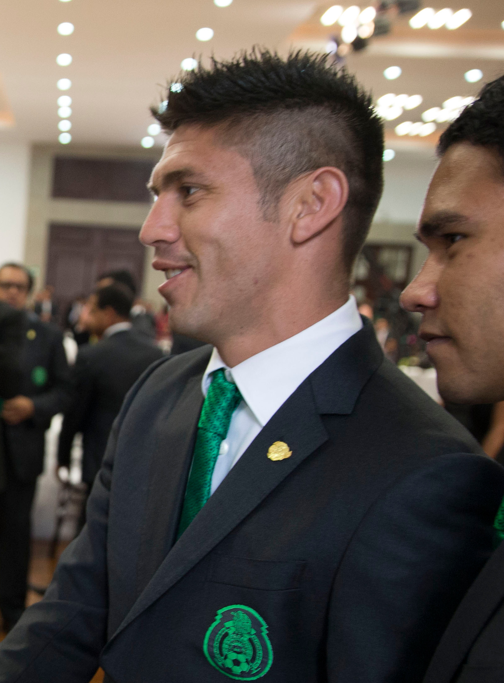 Oribe Peralta